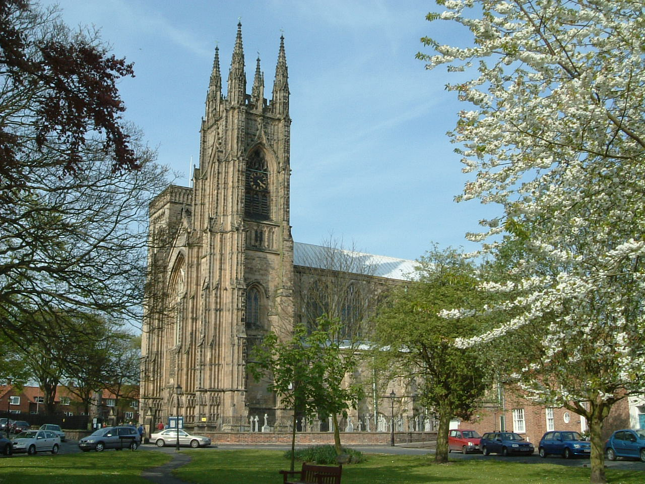 Bridlington Priory, Bridlington, East Riding of Yorkshire, England.